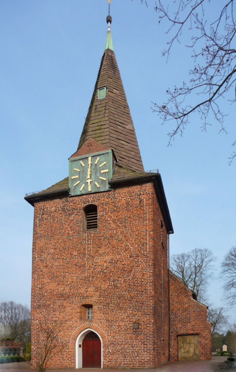 evang. church St. Johannes in Bremen-Arsten